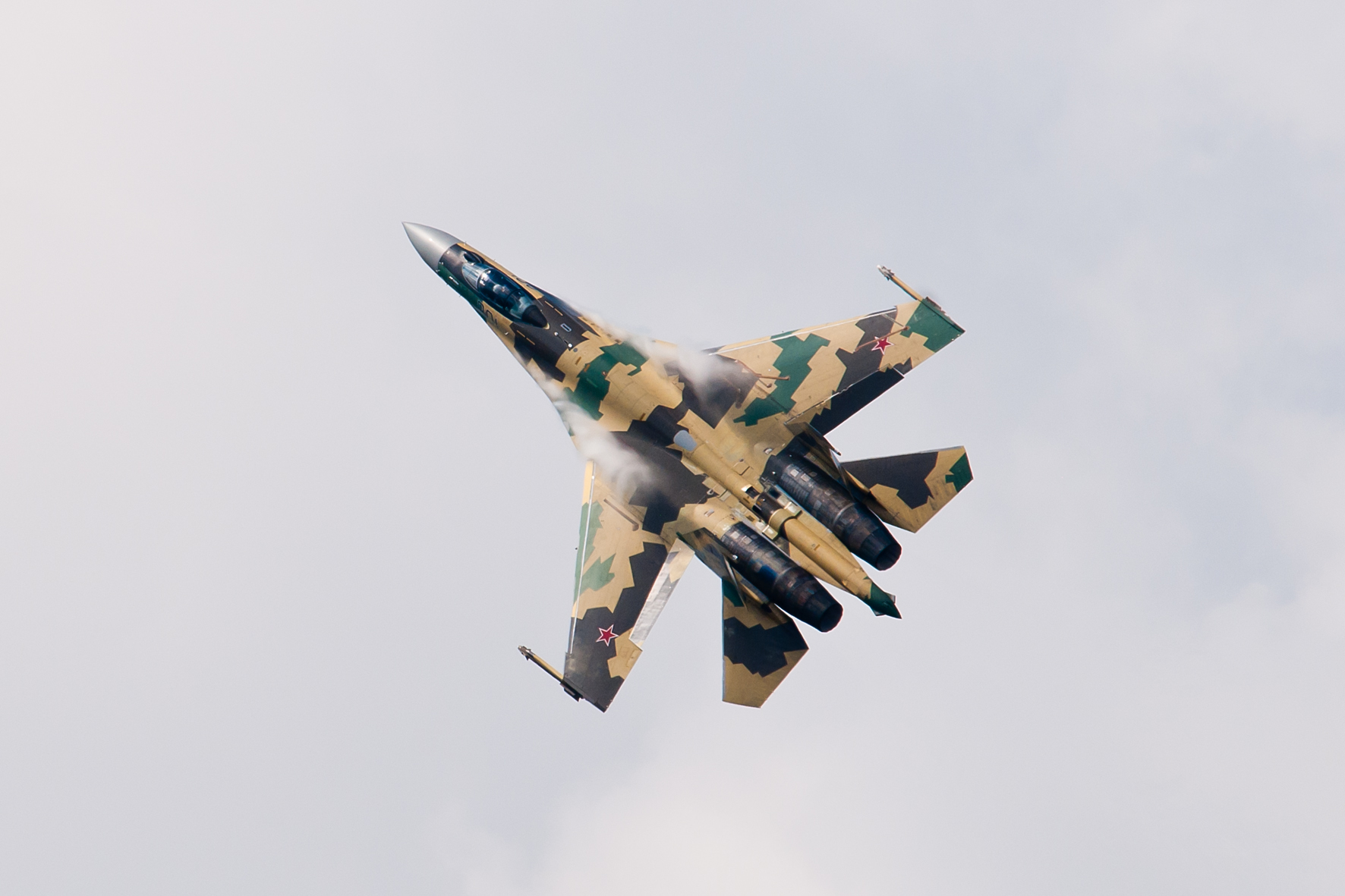 Sukhoi Su-35 at 100 Year Anniversary Russian Air Force. NATO reporting name: Flanker-E.